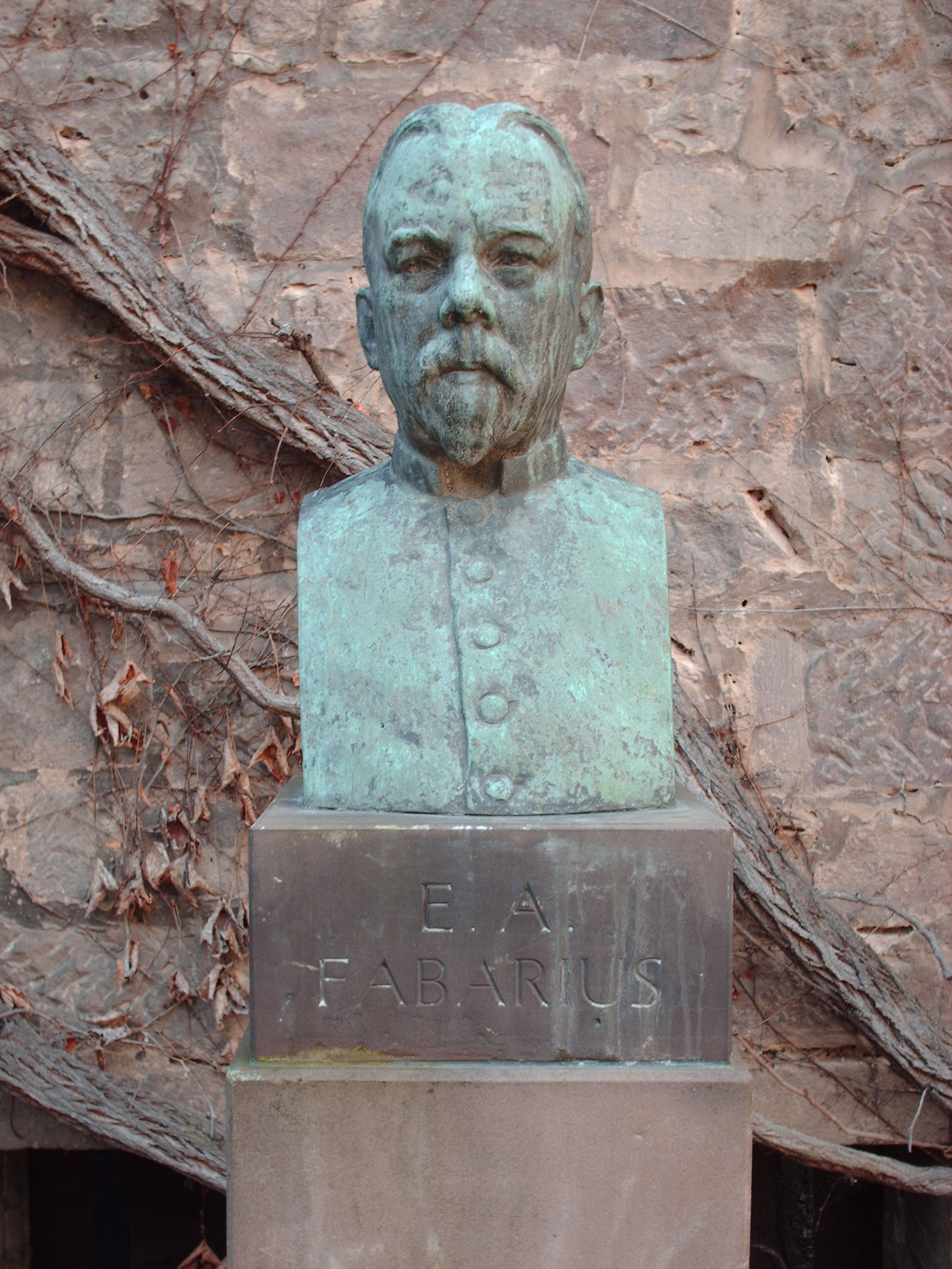 Statue for Ernst Albert Fabarius in Witzenhausen, Germany check usage